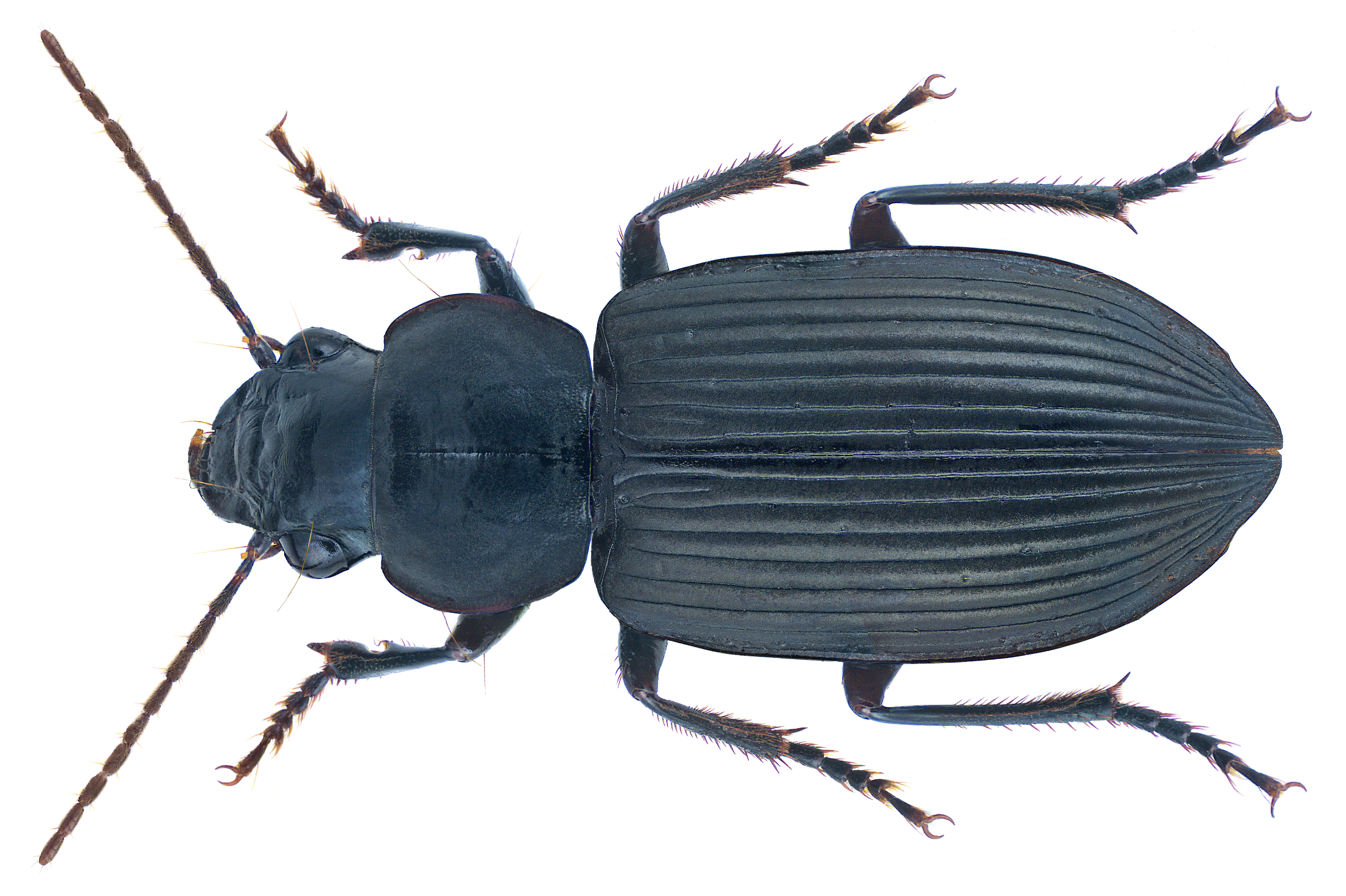 Family: Carabidae Size: 13,8 mm Location: Thailand, Prov. Phang Nga, Khao Lak, Khao Lak Beach, at light leg. U.Schmidt, 29.IV.2015; det. M.Baehr, 2015 Photo: U.Schmidt, 2016